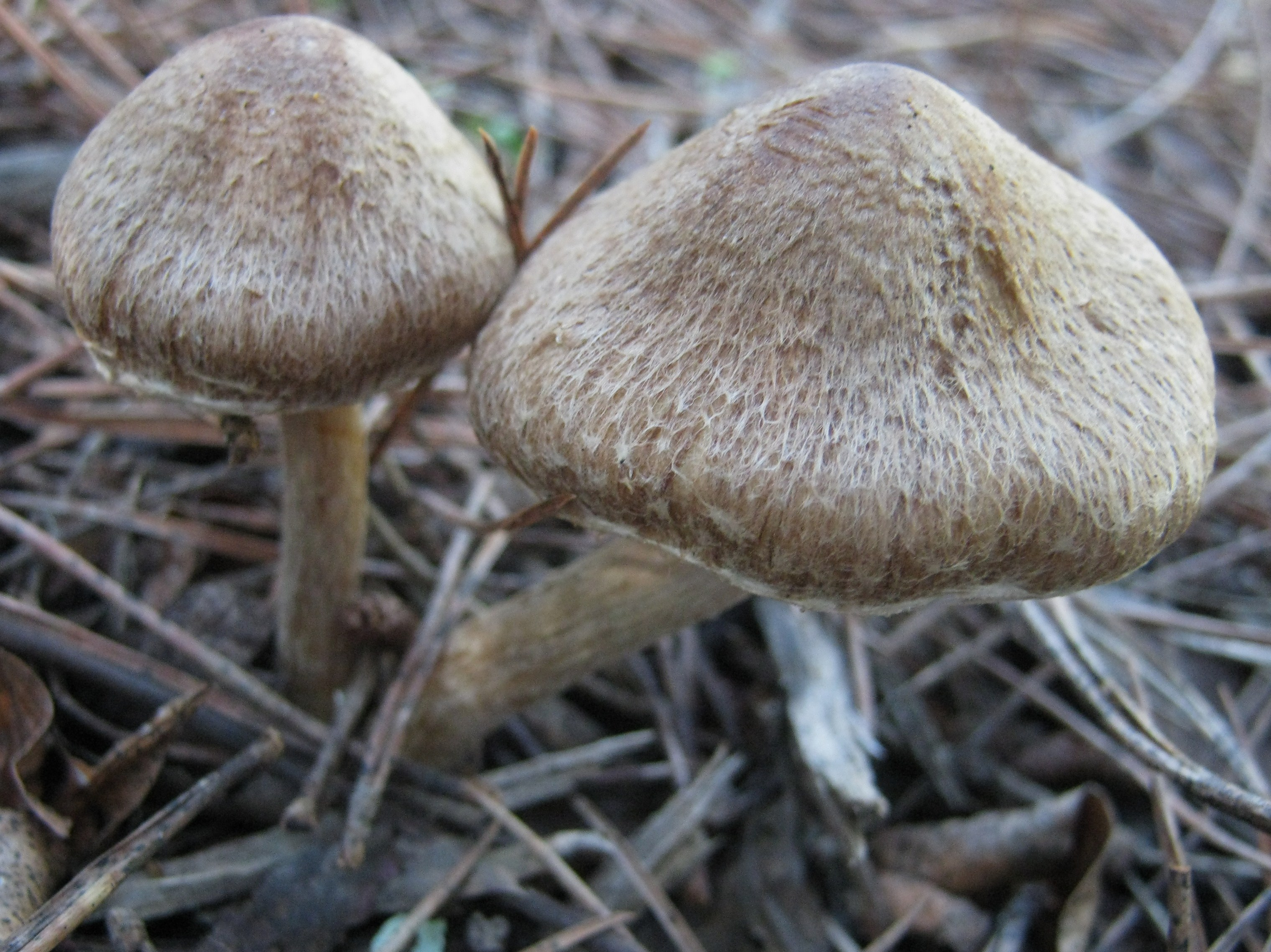 Fruit bodies of the agaric fungus Inocybe bongardii (Weinm.) Quél.; photographed in Parque de Monsanto, Lisboa, Portugal.